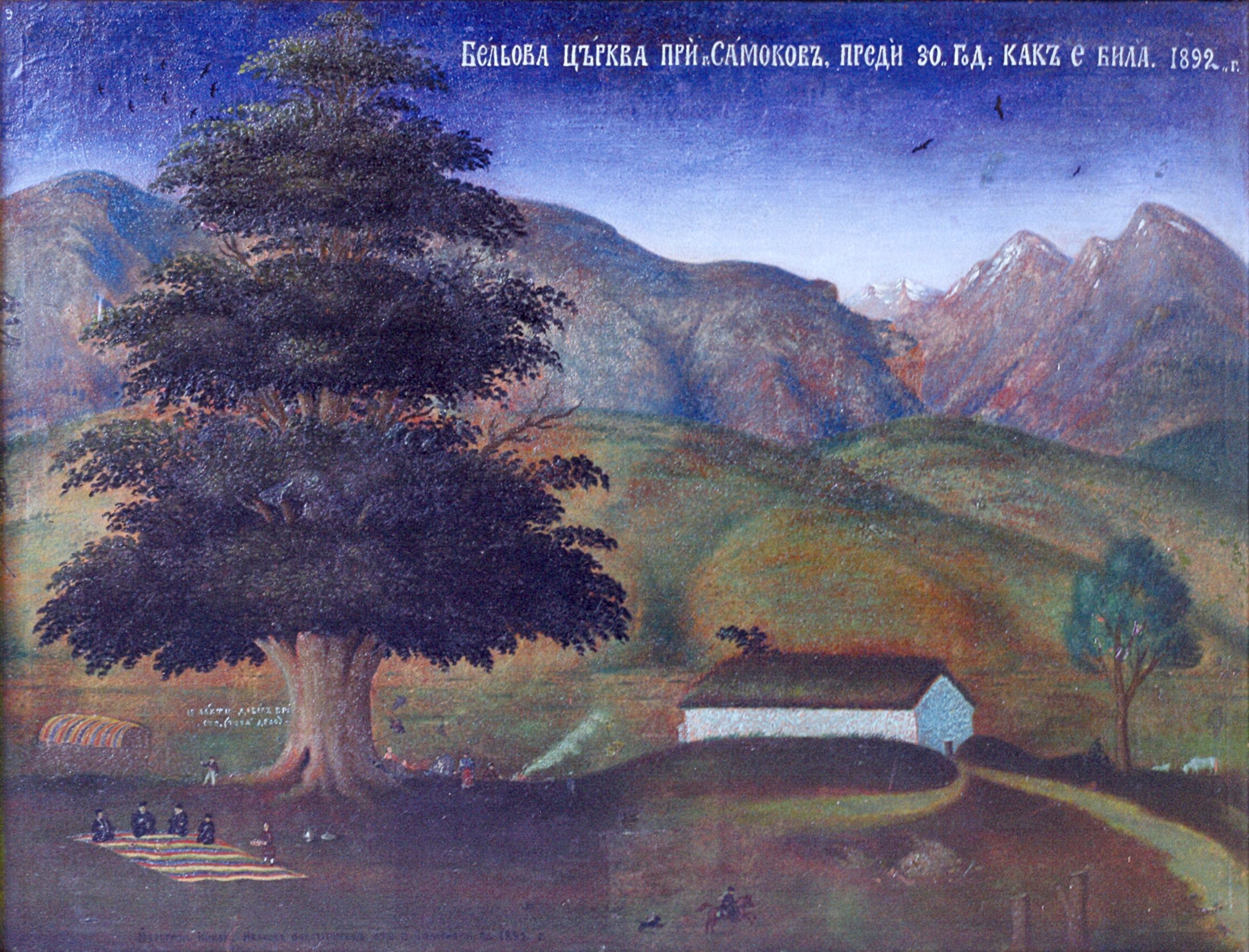 "Belyova church", oil paints, 85/66